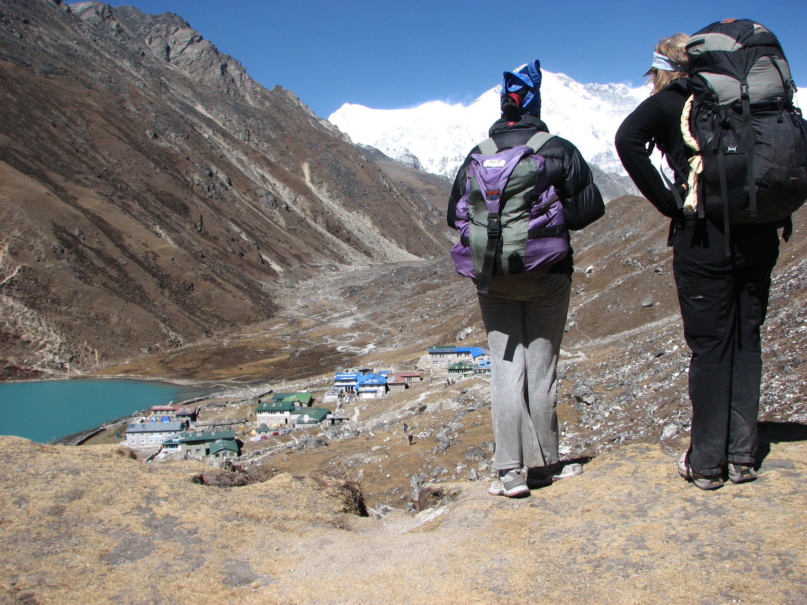 Gokyo from lateral morraine